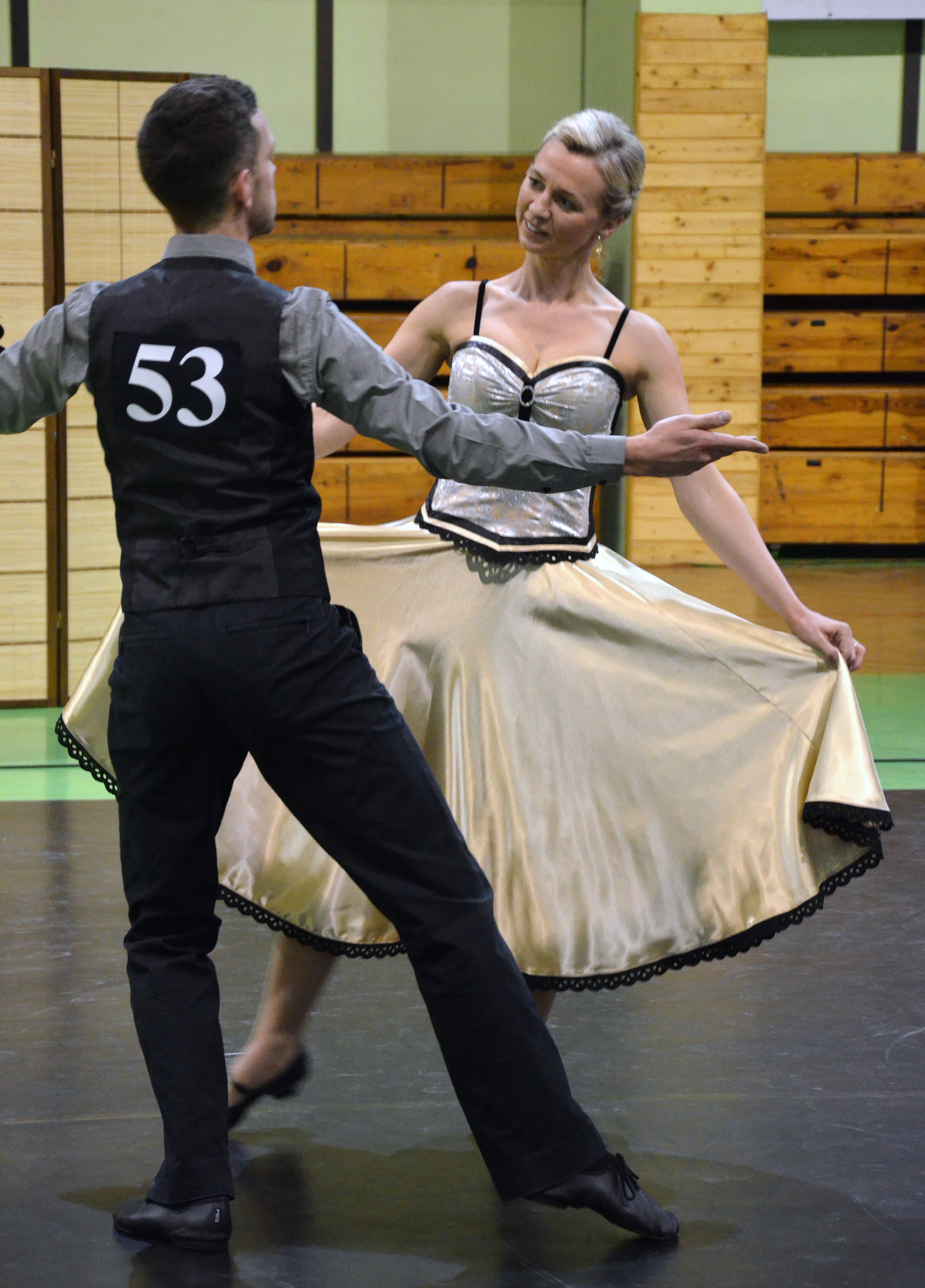 Kujawiak-Volkstanz